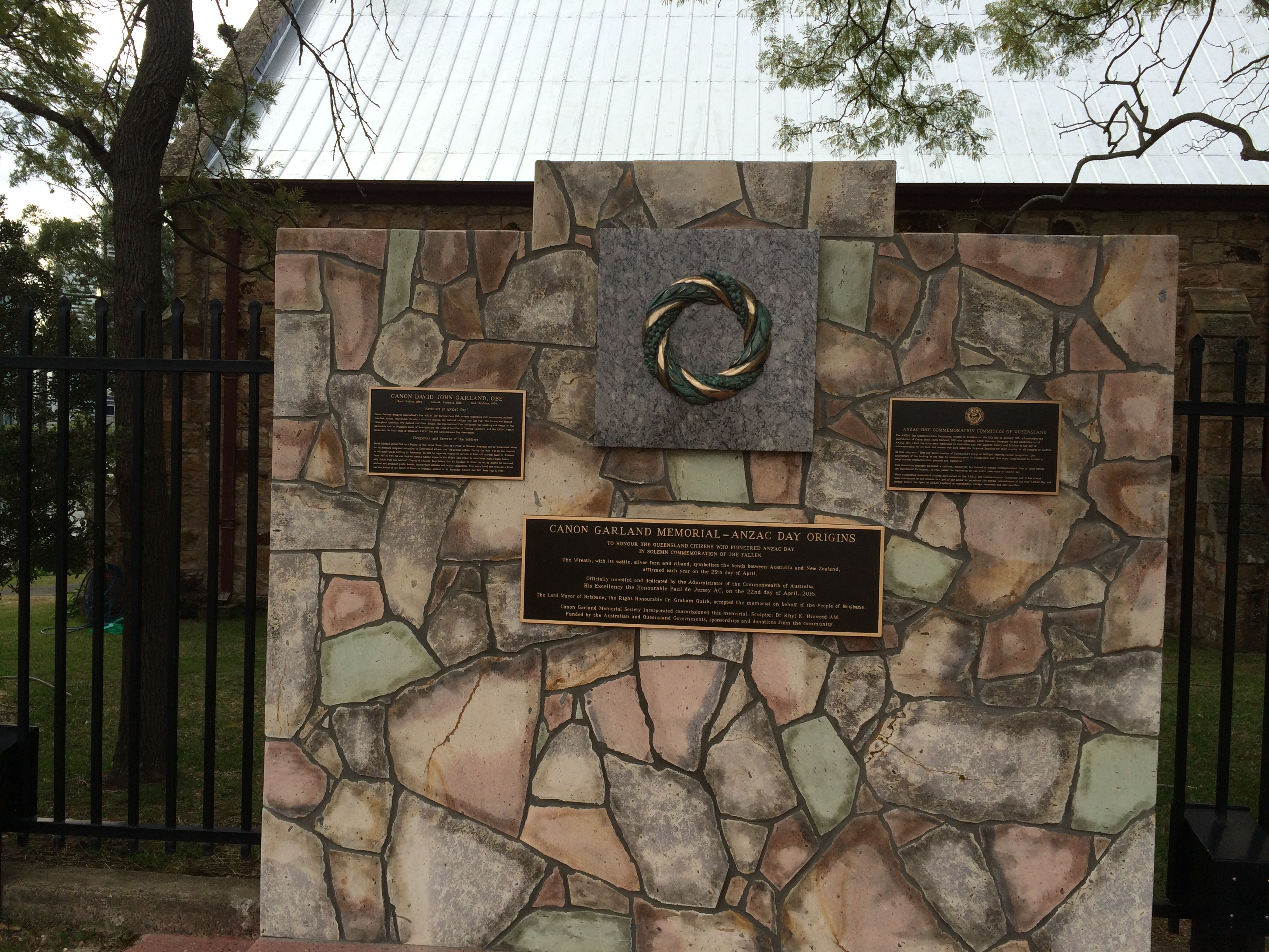 Canon Garland memorial, Kangaroo Point Cliffs Park as part of the fence to St Mary's Anglican Church, 2016